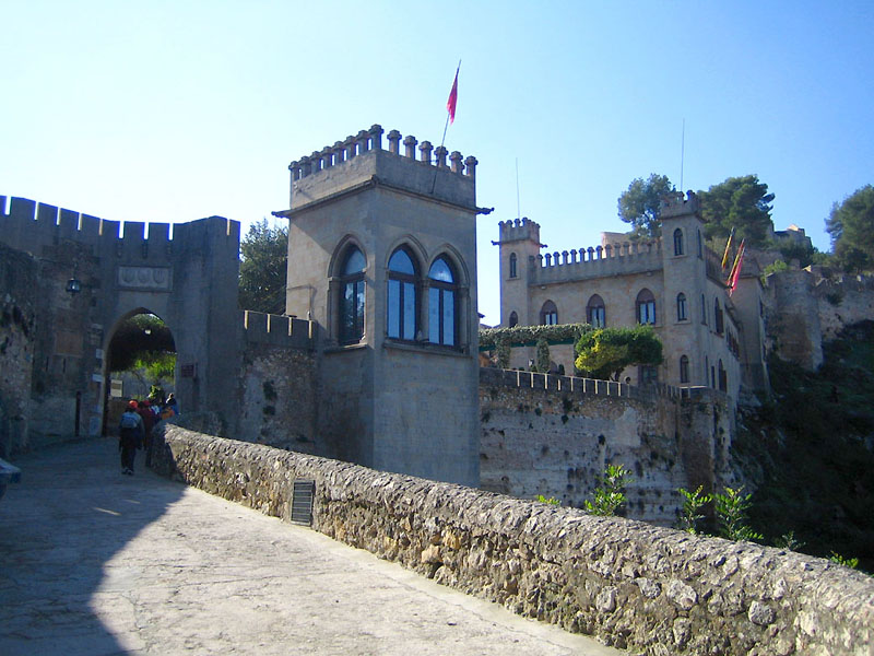 Xativa castle, County Costera, Region of Valencia, Spain.